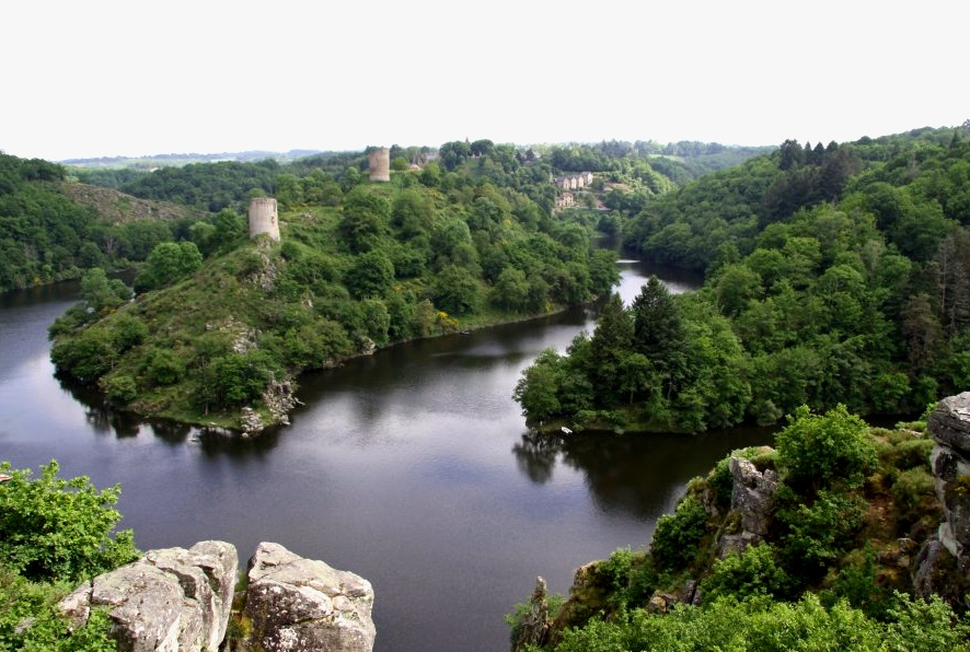 CHATEAU DE CROZANT